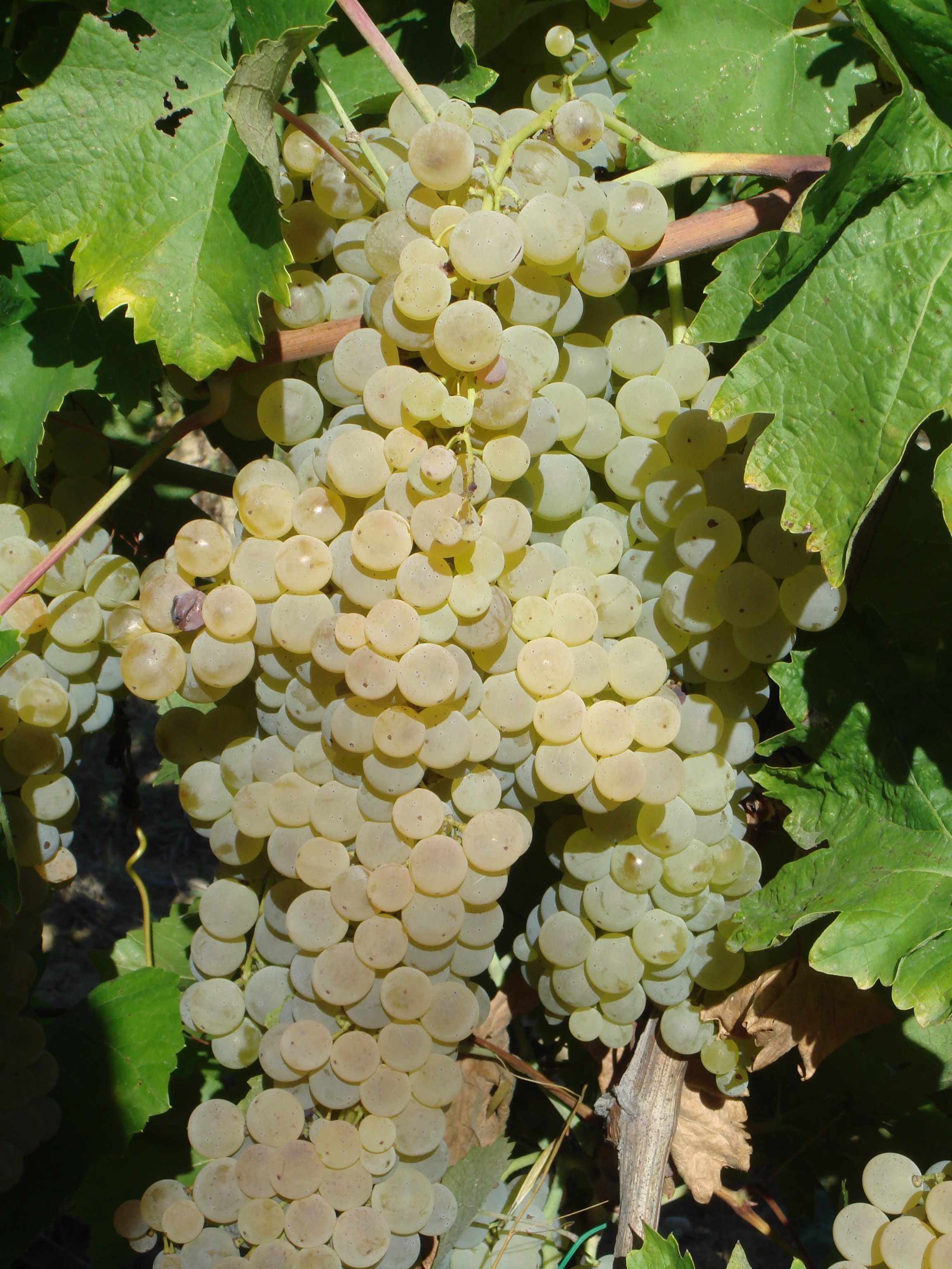 In Tuscany.